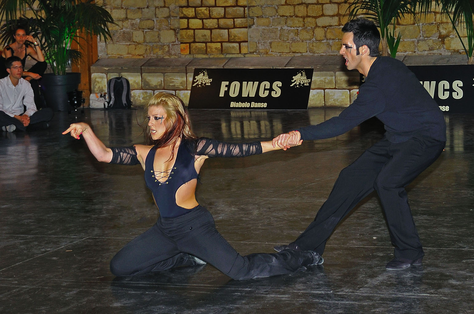 Jordan Frisbee and Tatiana Mollman in their 2010 Classic routine "Uprising" (Muse) at the French Open of West Coast Swing